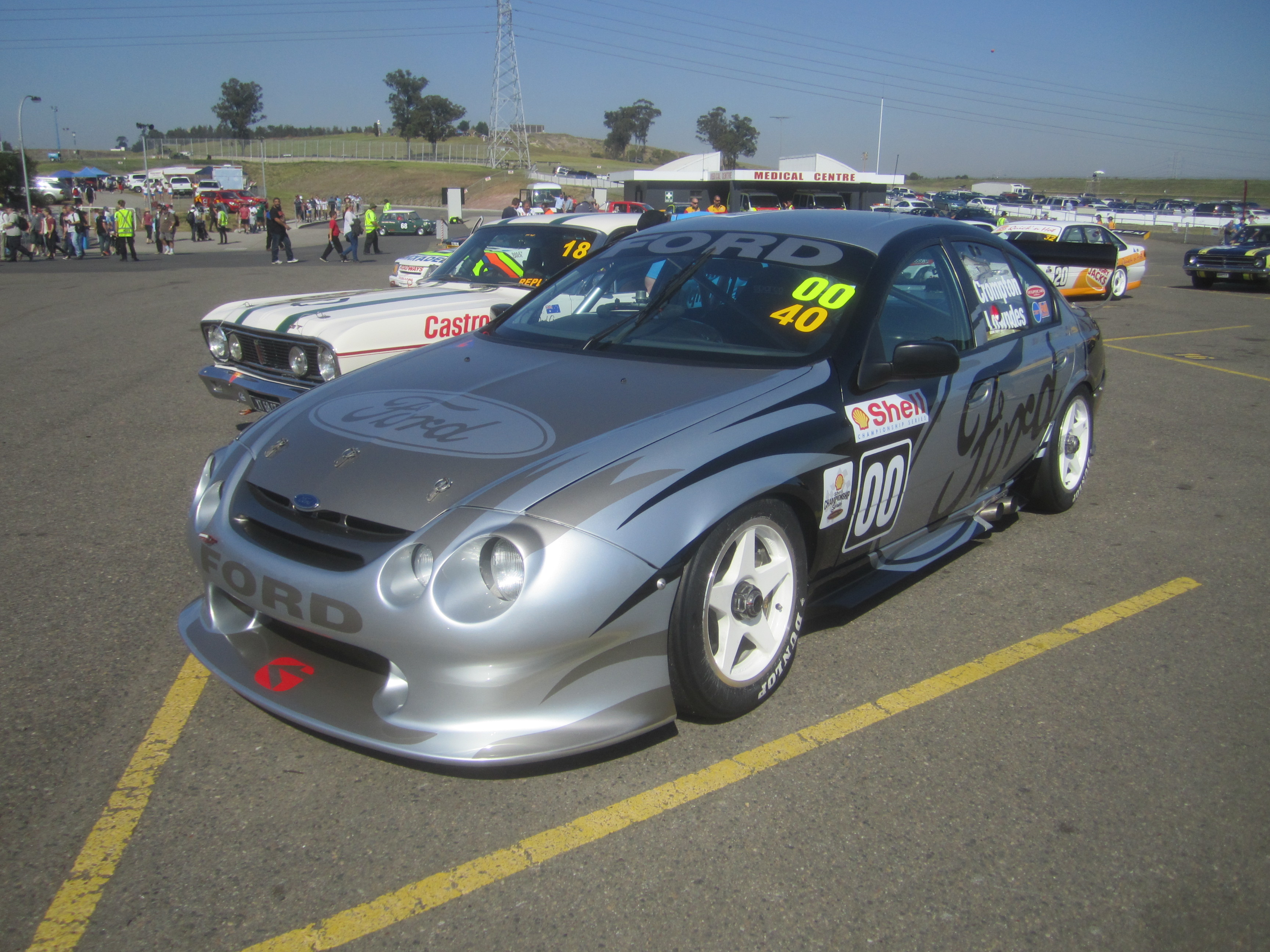 Introduced in late 1998, the AU Falcon got a completely new look, although not very popular, but the XR models didnt look so bad, quite a menacing appearance, with their trademark four headlight design. The XR was also given flashy body kits and decklid spoiler. The XR was the look for the race cars, this one built by Gibson Motorsport, and driven by Craig Lowndes and Neil Crompton in the 2001 Supercar 1000 at Bathurst, finishing 17th. This was the 1st year of 9 for Craig Lowndes in a Ford. He finished 2nd in the Bathurst 1000 in a BA Falcon in 2003 and 2004 and 1st in 2006, 2007 and 2008, before returning to Holden in 2010.